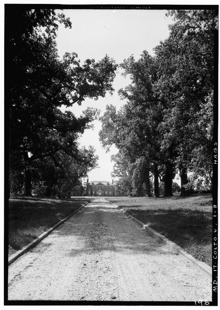 View of the Gardens and Distant BELAIR MANSION Plantation. View from the front (North) ALONG ENTRANCE DRIVE (1936). Located in Collington; on the National Register of Historic Places. Image courtesy of the federal HABS—Historic American Buildings Survey of Maryland. View Along ENTRANCE DRIVE of Gardens and distant BELAIR MANSION From North (Front); Collington; HABS MD,17-COLTO.V,1-8